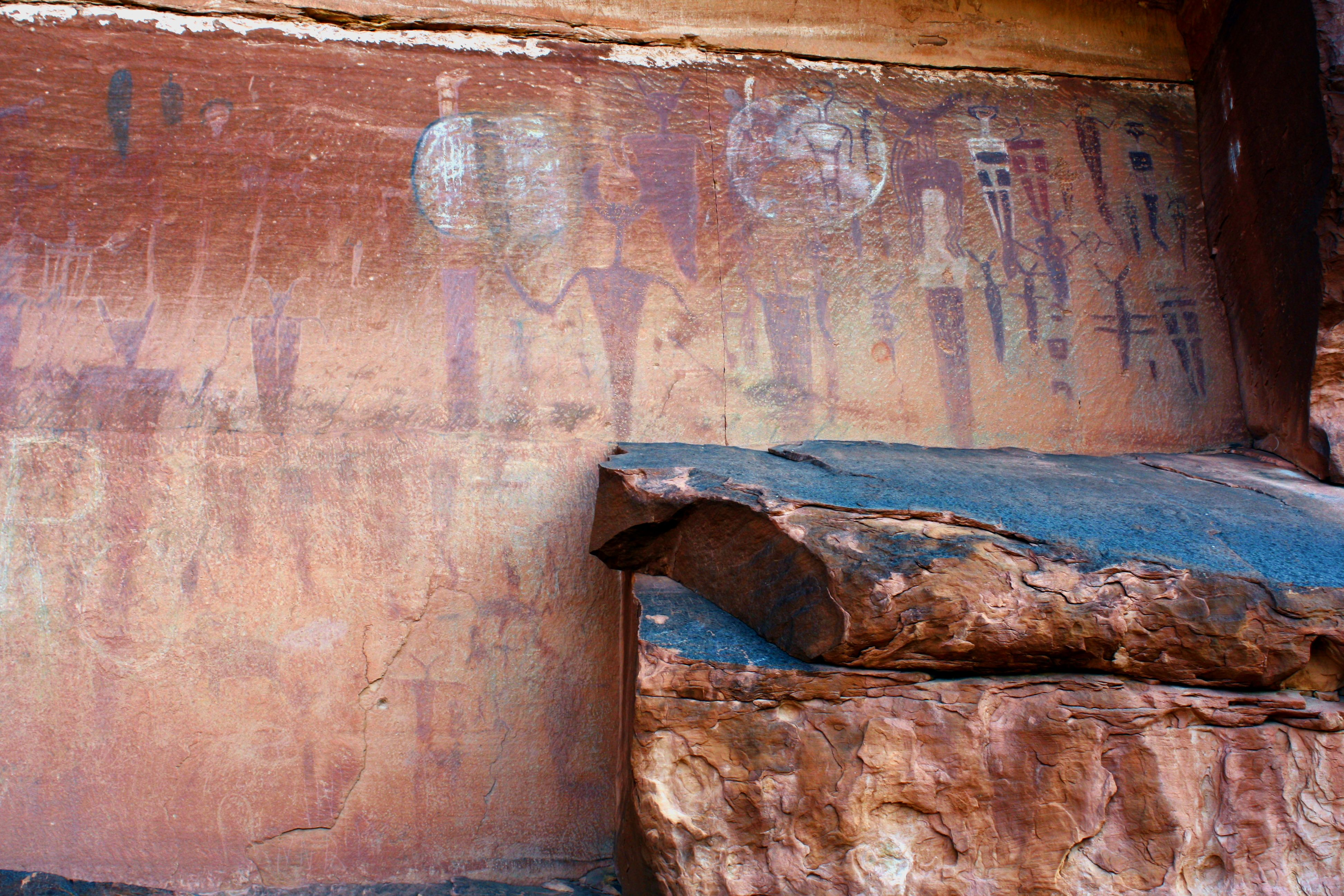 Courthouse Wash Panel above Moab, Utah. Taken with Canon EOS Rebel XS and then fully saturated to increase visibility of pictographs.